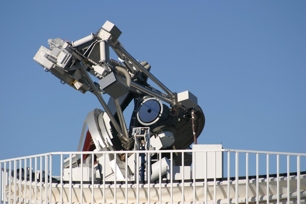 This is an image of the top part of the Dutch Open Telescope, in action during the partial eclipse on 3 October 2005.